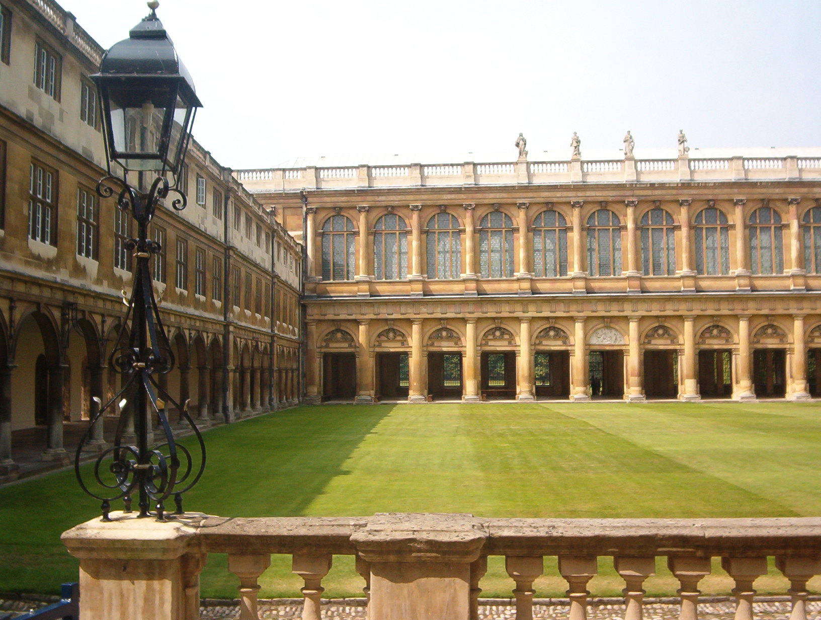 A view of Wren Library across Nevile's Court. Photo by Azeira, August 2004.